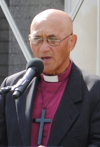 Bishop Muru Walters gives a blessing at the 2012 Waitangi Day Garden Reception at Government House, Wellington, on 6 February 2012.